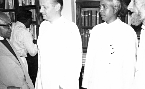 Caption: Left to right: Reverend J. J. P. Tiger, Bihar Christian Council President; Reverend Kloss, German Lutheran missionary, 2 Jesuits. Citation: Mennonite Board of Missions Photographs, 1898-1967. IV-10-007.2 Box 4 Folder 10. Mennonite Church USA Archives - Goshen. Goshen, Indiana.